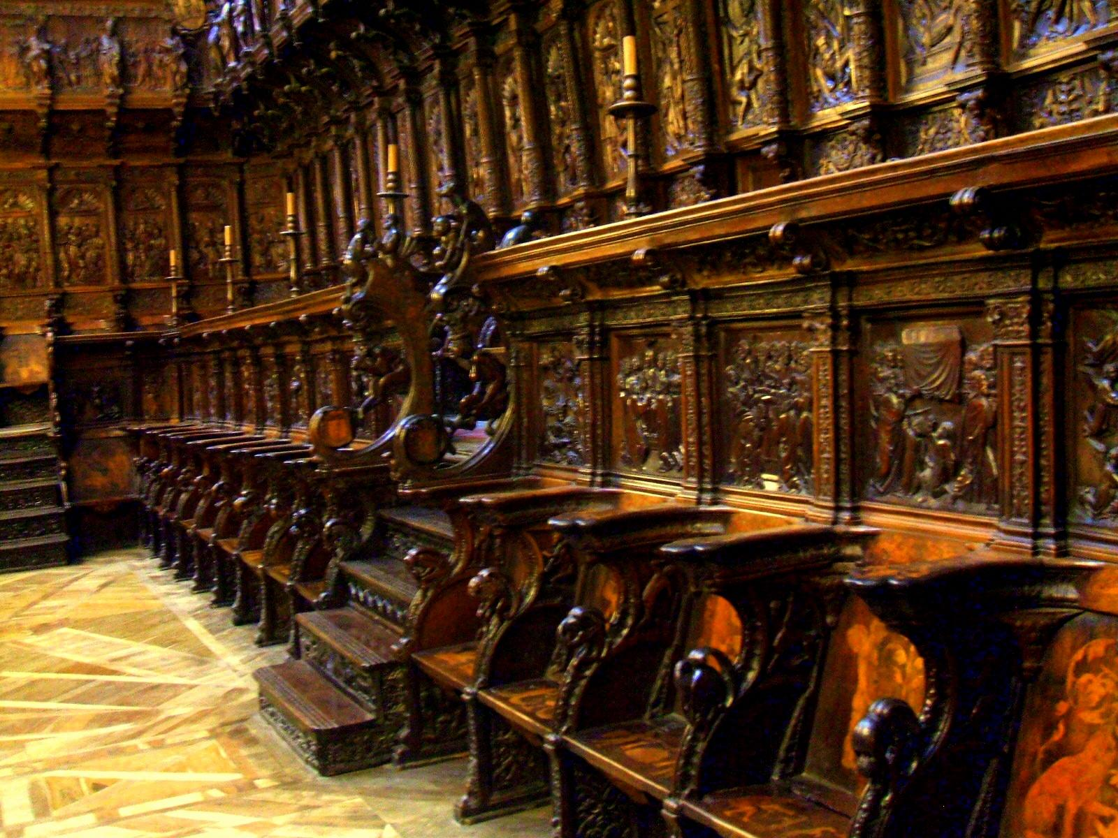 Sillería del coro de la Catedral de Burgos